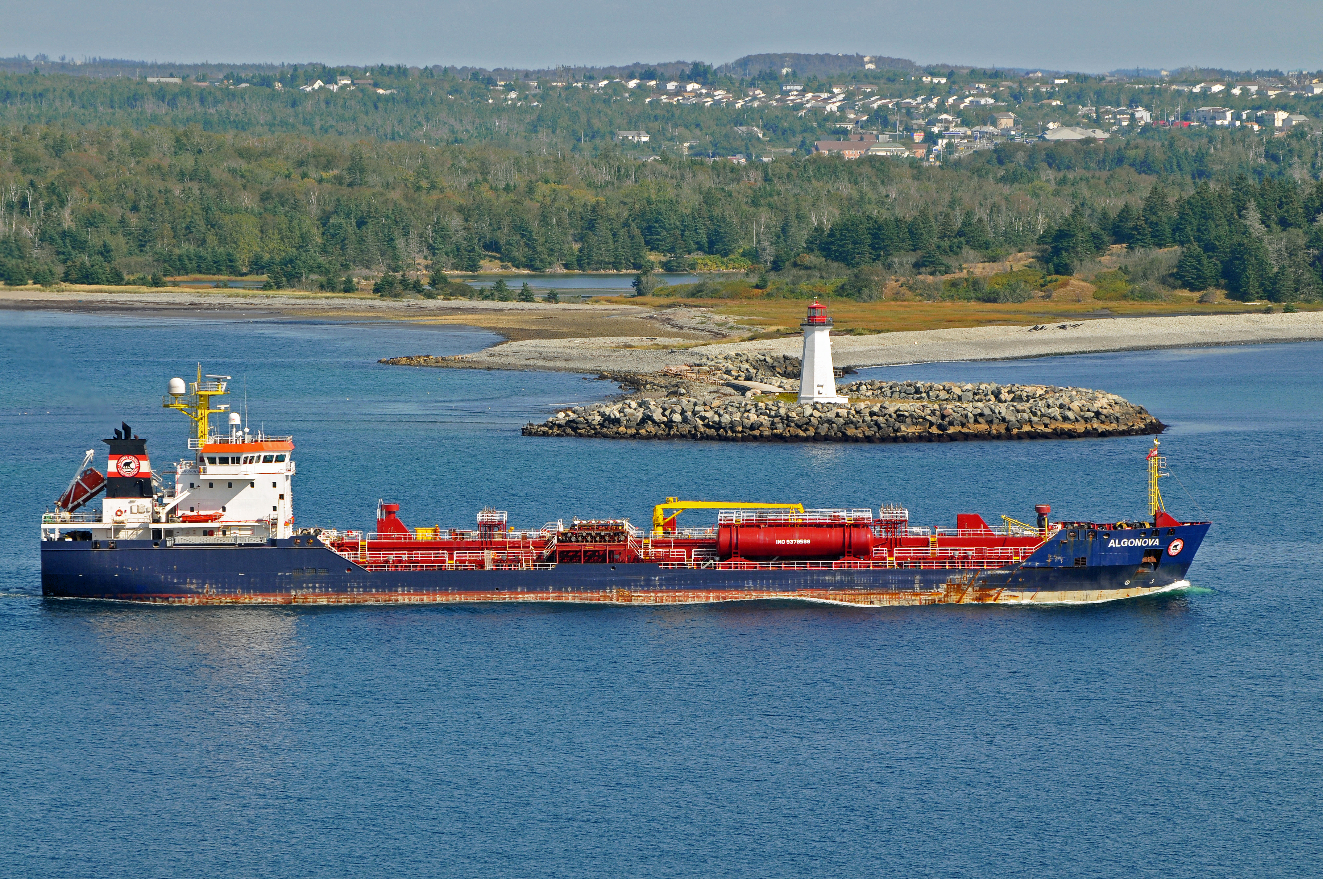 PLEASE, no multi invitations, glitters or self promotion in your comments. My photos are FREE for anyone to use, just give me credit and it would be nice if you let me know, thanks - NONE OF MY PICTURES ARE HDR. This was taken on the opposite side of the harbour from York Redoubt a old fortification. Maugher Beach Lighthouse stands at the end of a curving beach on McNabs Island, at the entrance to Halifax harbour. The beach was named after Joshua Maugher, a rum distiller and merchant who used the beach to dry fish. It is also known as "Hangman's Beach" because the Royal Navy used it to hang the bodies of executed mutineers as a warning to crews of other ships entering the harbour. The first light was lit here in 1828, from a granite Martello Tower with a red roof. The present lighthouse was built in 1941. Tower Height: 16.46m (54ft) Light Height: 17.37m (57ft) above water level The Algonova passing by the lighthouse was built in Turkey in 2008. Its function is to provide safe and reliable transportation services for liquid petroleum products throughout the Great Lakes, St. Lawrence Seaway and Atlantic Canada regions. Customers include major oil refiners, leading wholesale distributors and large consumers of petroleum products who demand the highest levels of quality and service. It is registered in St. Catharines, Canada.